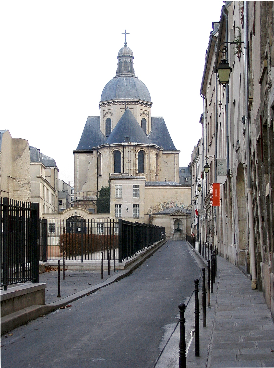 Jardins de Saint-Paul street - Paris